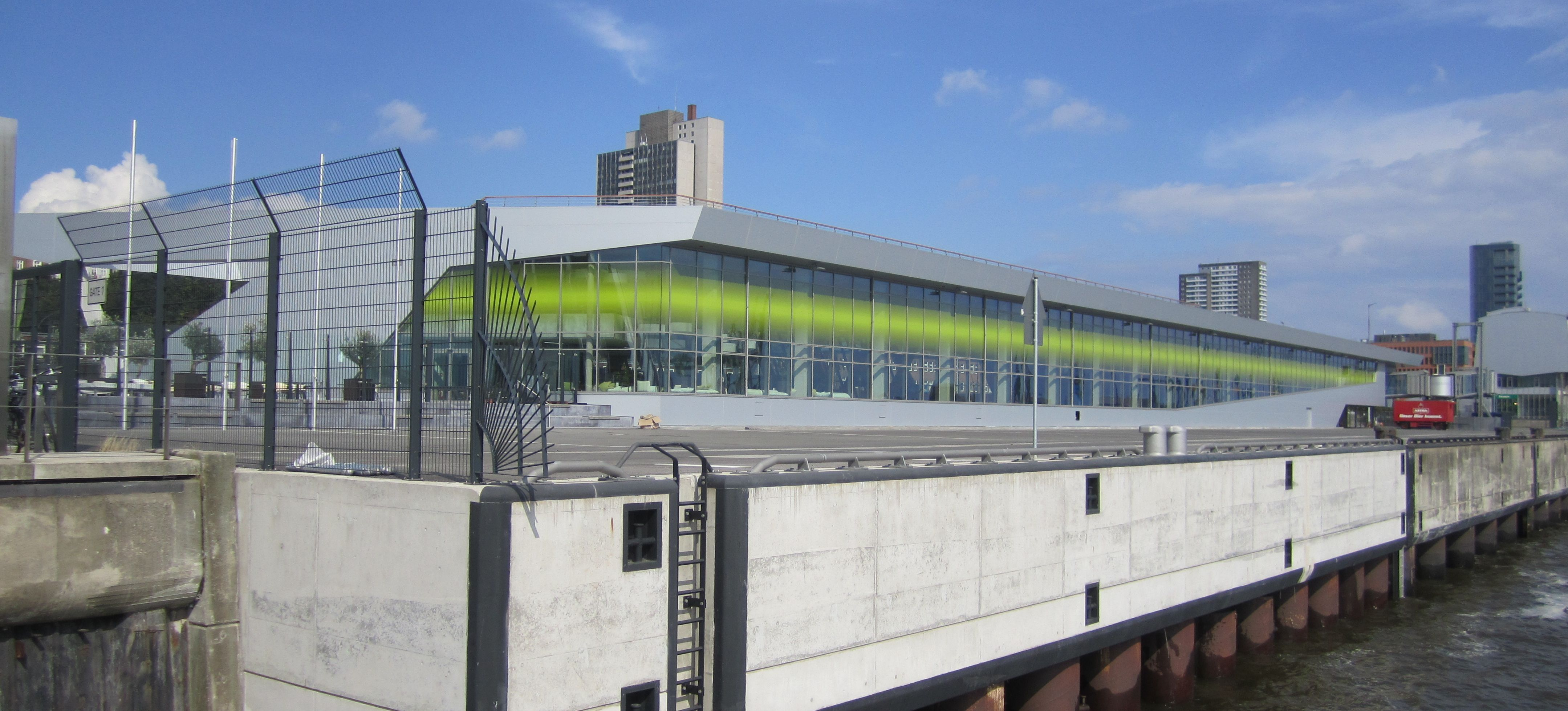 Hamburg Cruise Center Altona